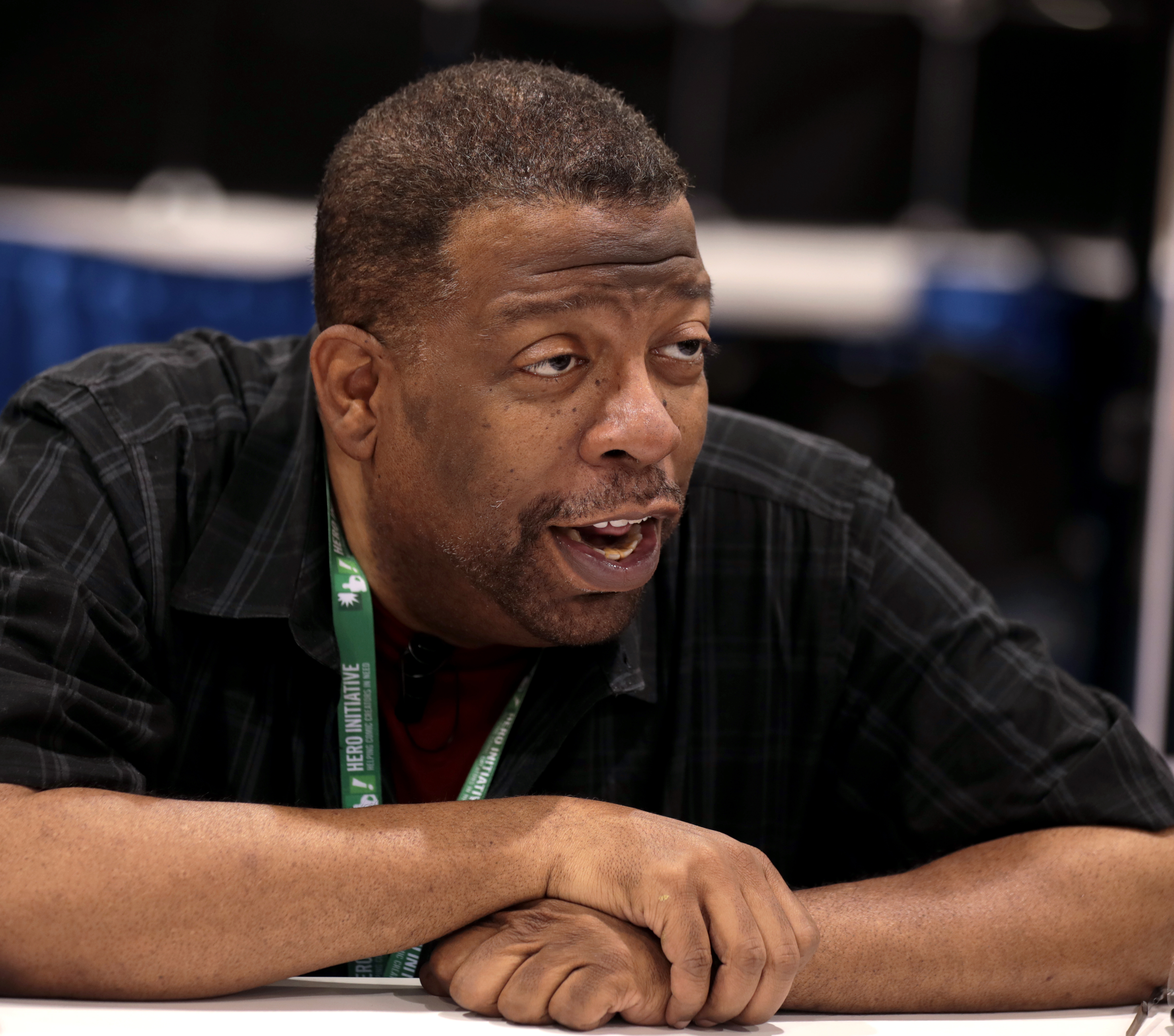 Christopher Priest speaking at the 2019 Phoenix Fan Fusion in Phoenix, Arizona.